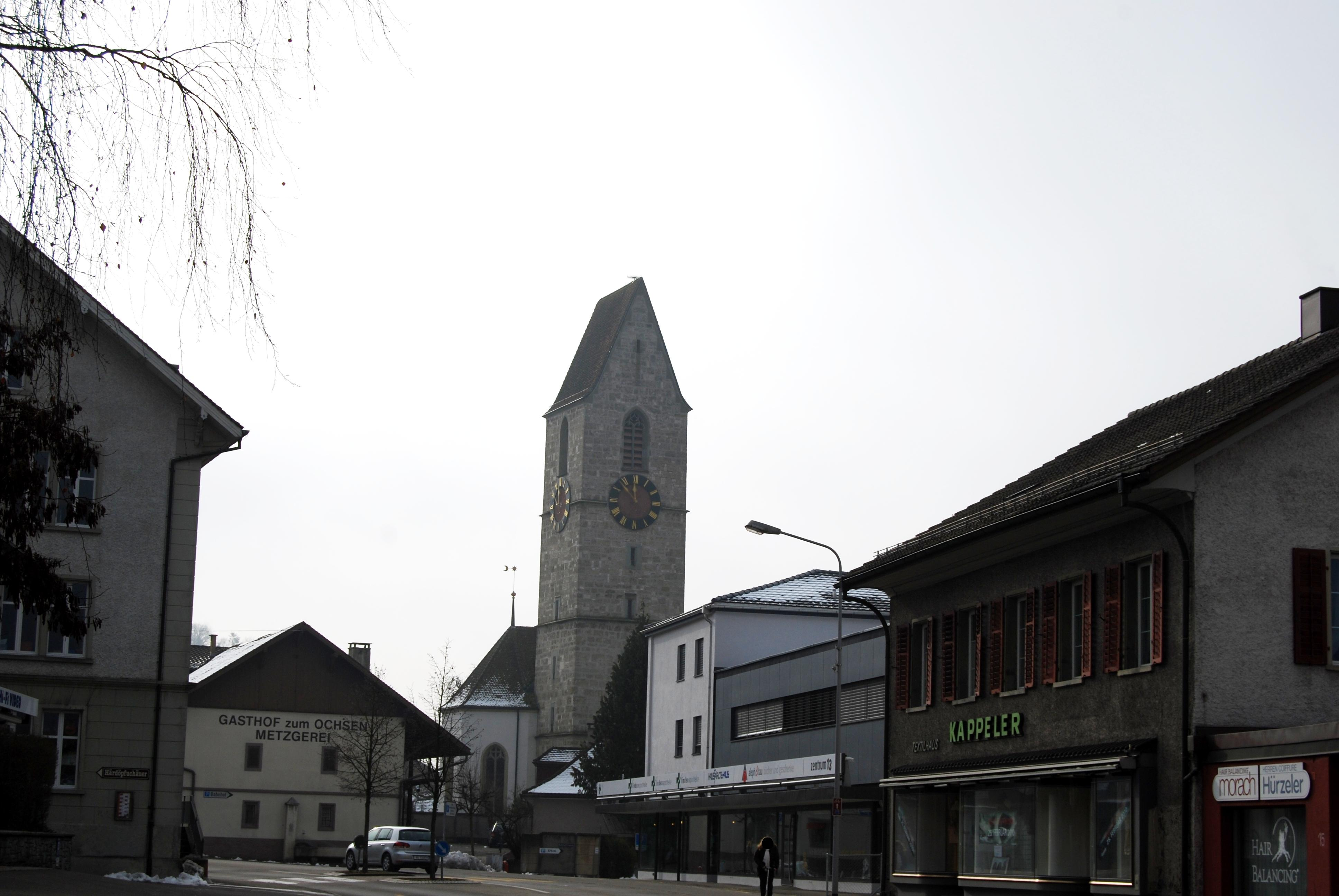 Church of Schöftland, canton of Aargau, SwitzerlandEsperanto: Preĝejo de Schöftland, Kantono Argovio, Svislando